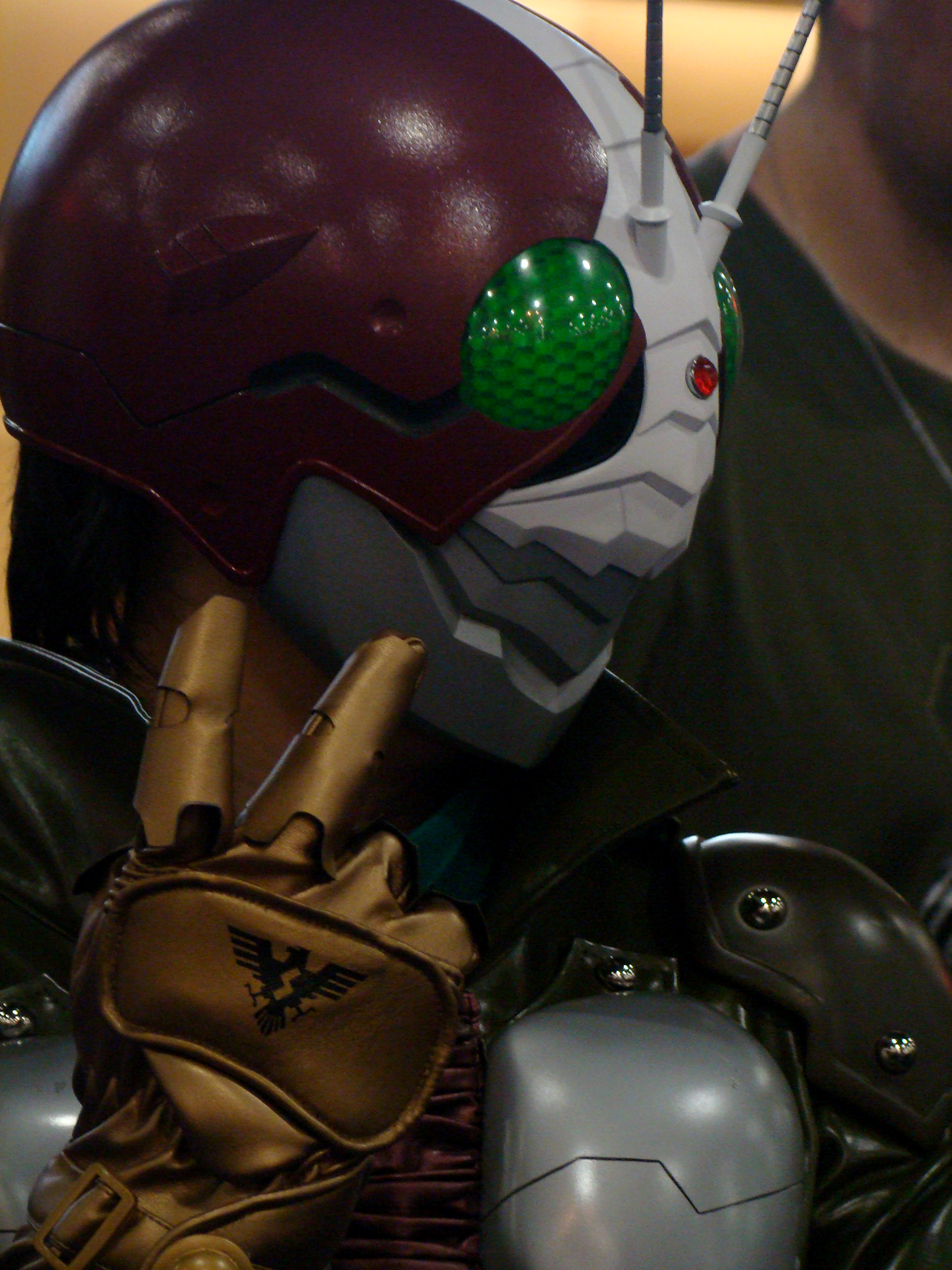 Kamen Rider V3 Also, if you use any of my pictures on facebook, myspace, your blog, etc., please be a bud and let me know in the comments section or by emailing me? I just like knowing where my pictures wind up is all. Also, if you’re in any of my pictures and don’t want to be up on flickr, let me know and I’ll take it down right away. Thanks.